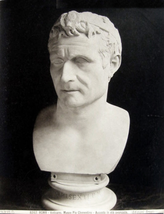 Carlo Brogi (1850-1925) - "Rome - Vatican - Museo Pio-Clementino - Augustus in his older age". Catalogue # 8262.